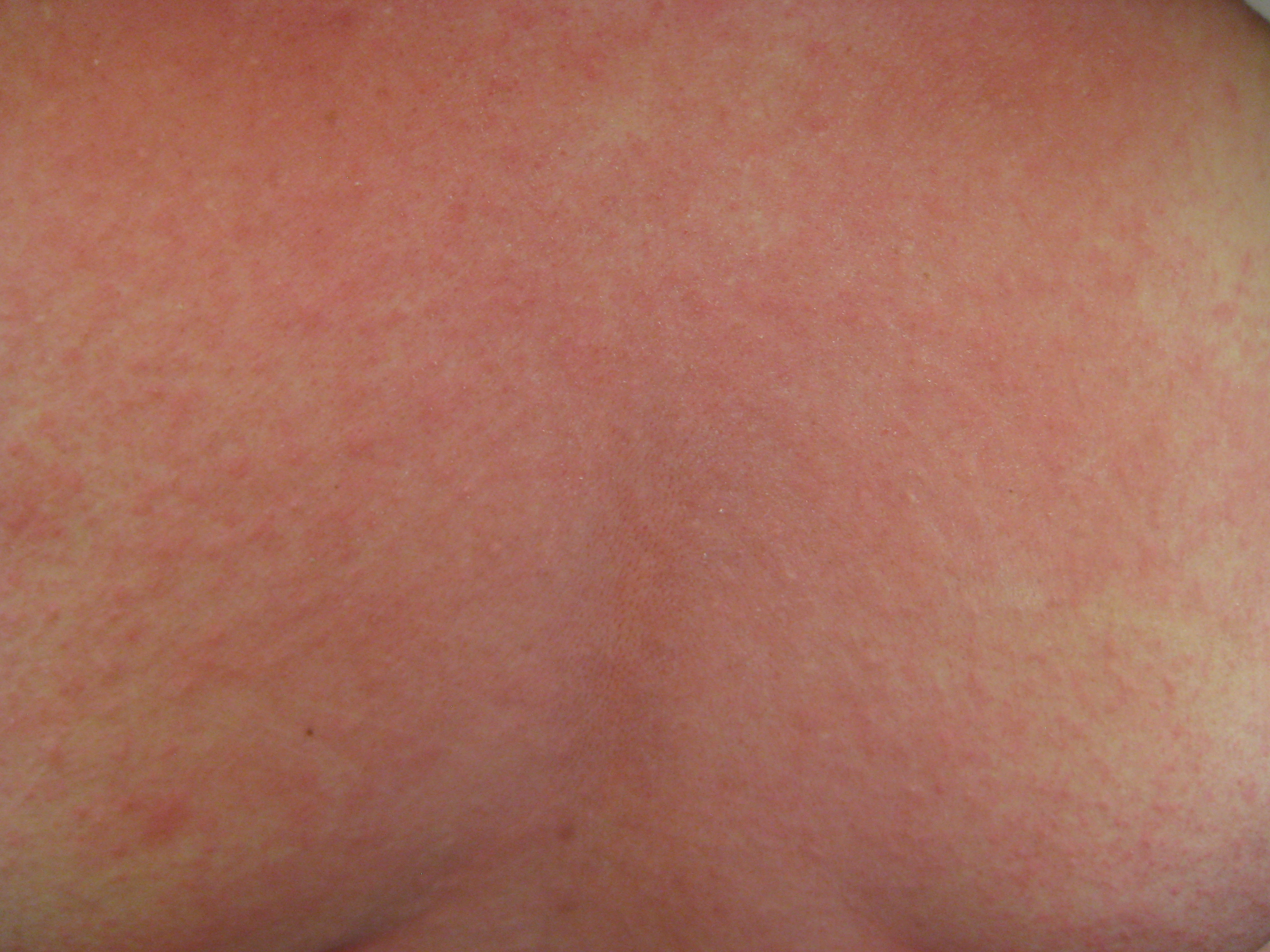 A rash on the chest of a person with anaphylaxis.